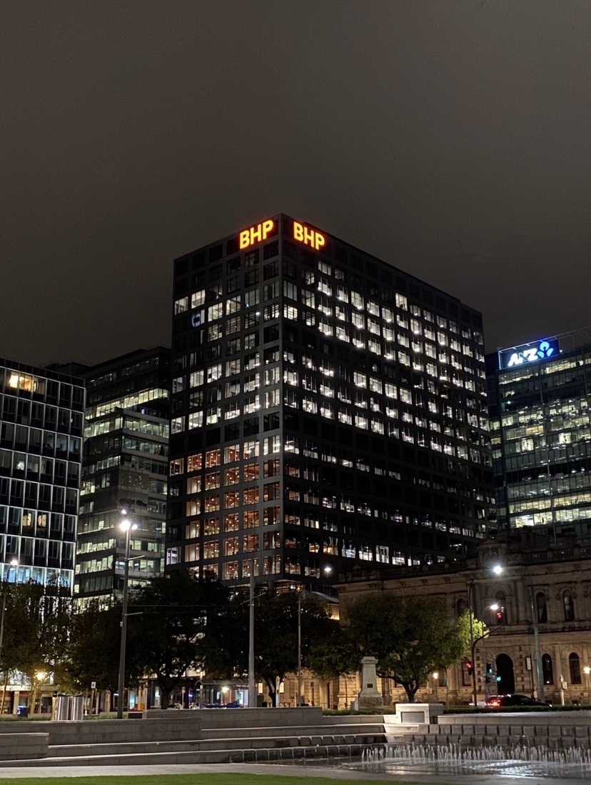 Founded in 1885 in the isolated mining town of Broken Hill in New South Wales BHP is the world's largest mining company, based on market capitalisation. It has offices and headquarters in major cities around the world, including this one, located in Adelaide's city centre.